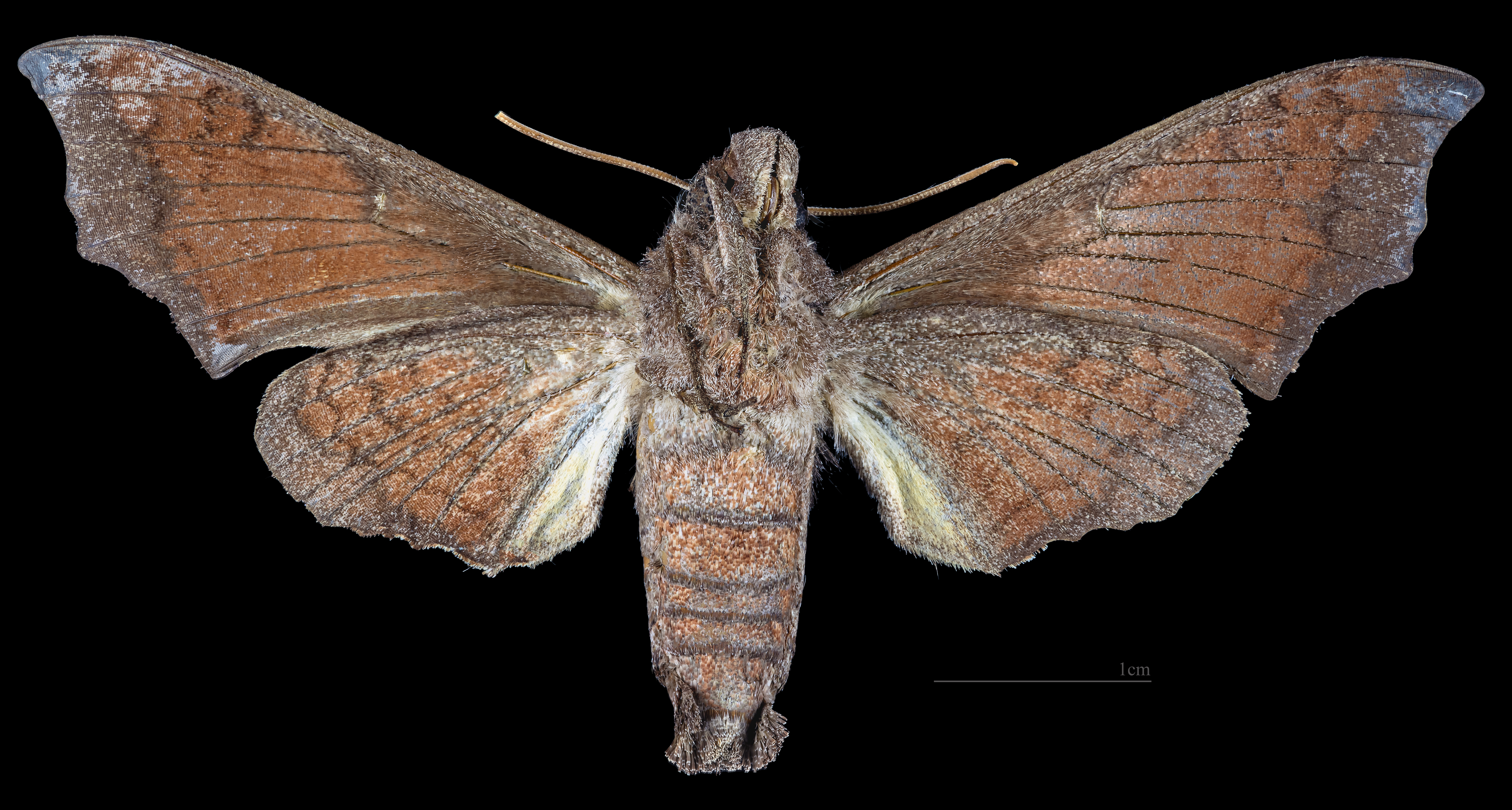 Perigonia grisea - △ Ventral side Collection of the Mathematician Laurent Schwartz